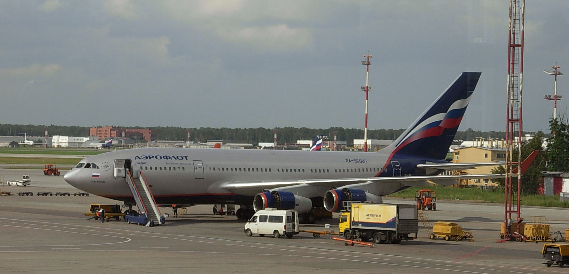 Aeroflot's Ilushyn IL96, RA-96007 at Moscow Sheremetevo-2 airport.jpg